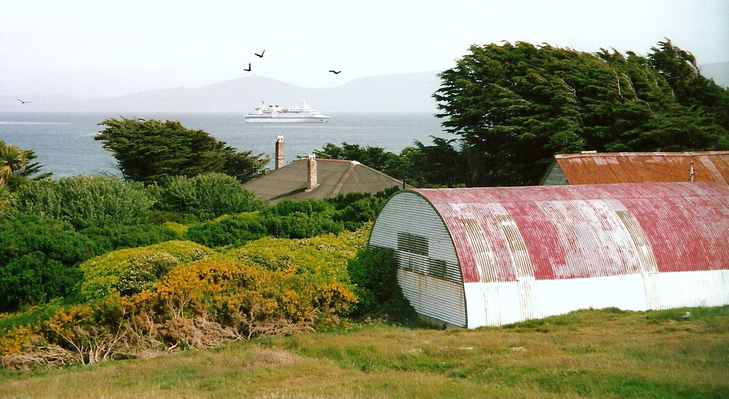 Carcass Island Falkland Insel